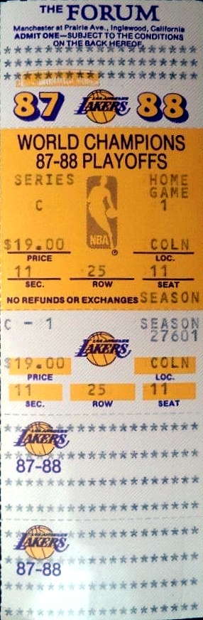 A ticket for Game 1 of the 1988 Western Conference Finals featuring the Dallas Mavericks versus the Los Angeles Lakers at the Forum on May 23, 1988. The Lakers defeated the Mavericks 113-98 in Game 1 and eventually won the series 4-3.